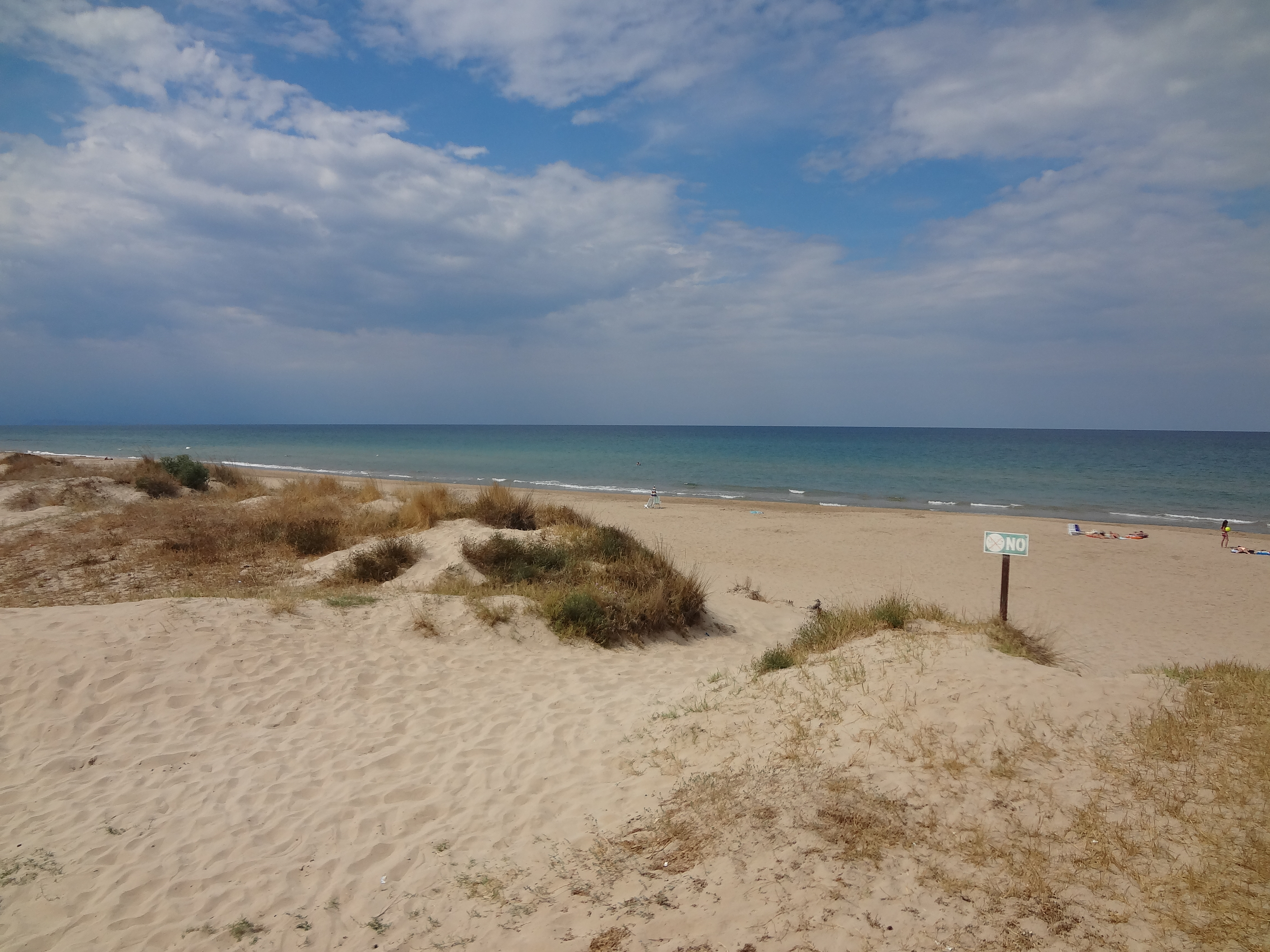 Mediterranean Sea in Oliva, Valencia Region of the Spain